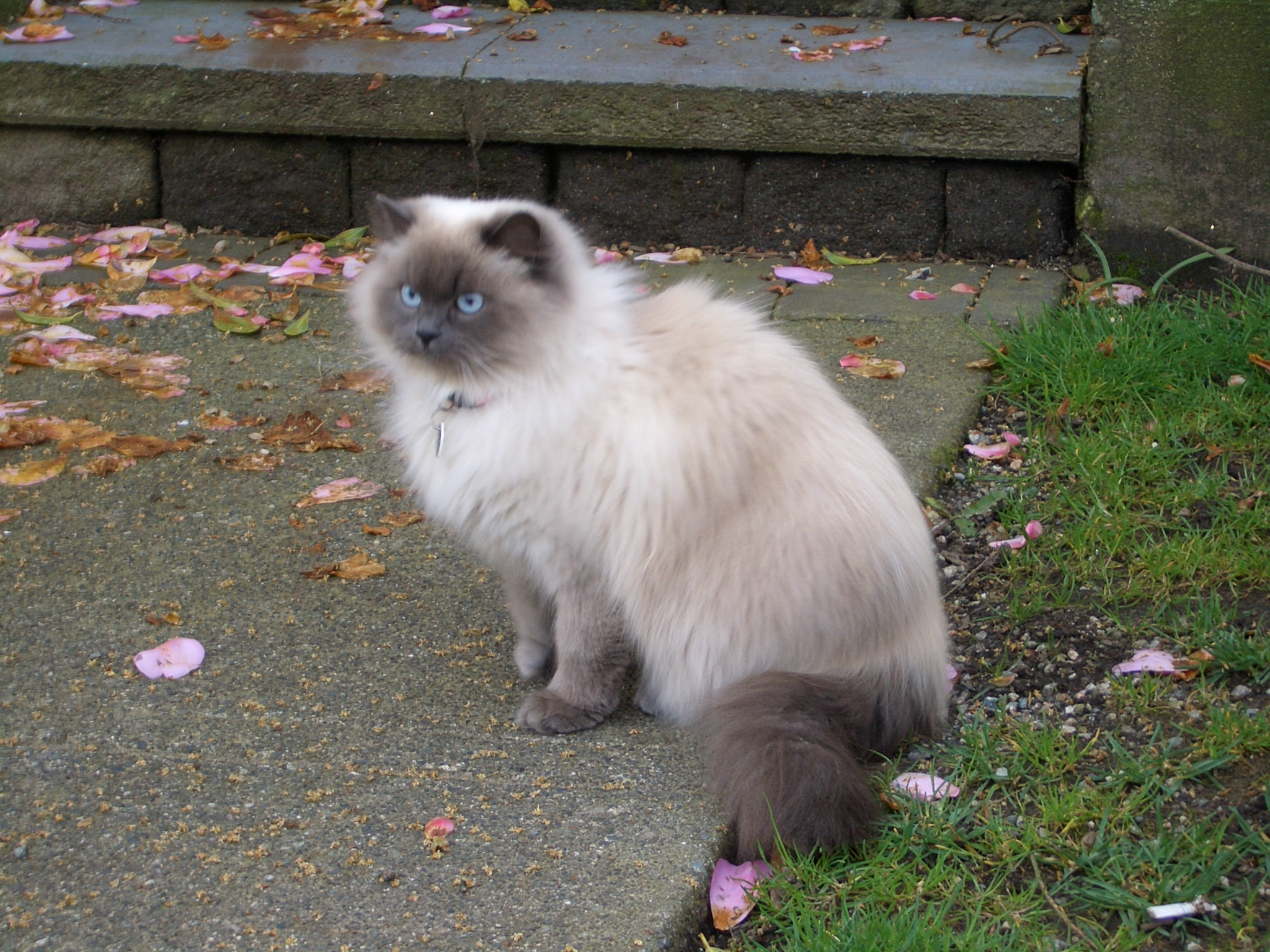 A cat (Himalayan) in Strathcona, Vancouver